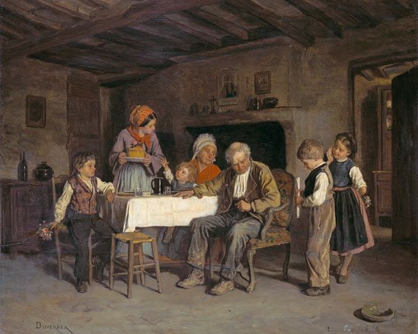 Surprise Party